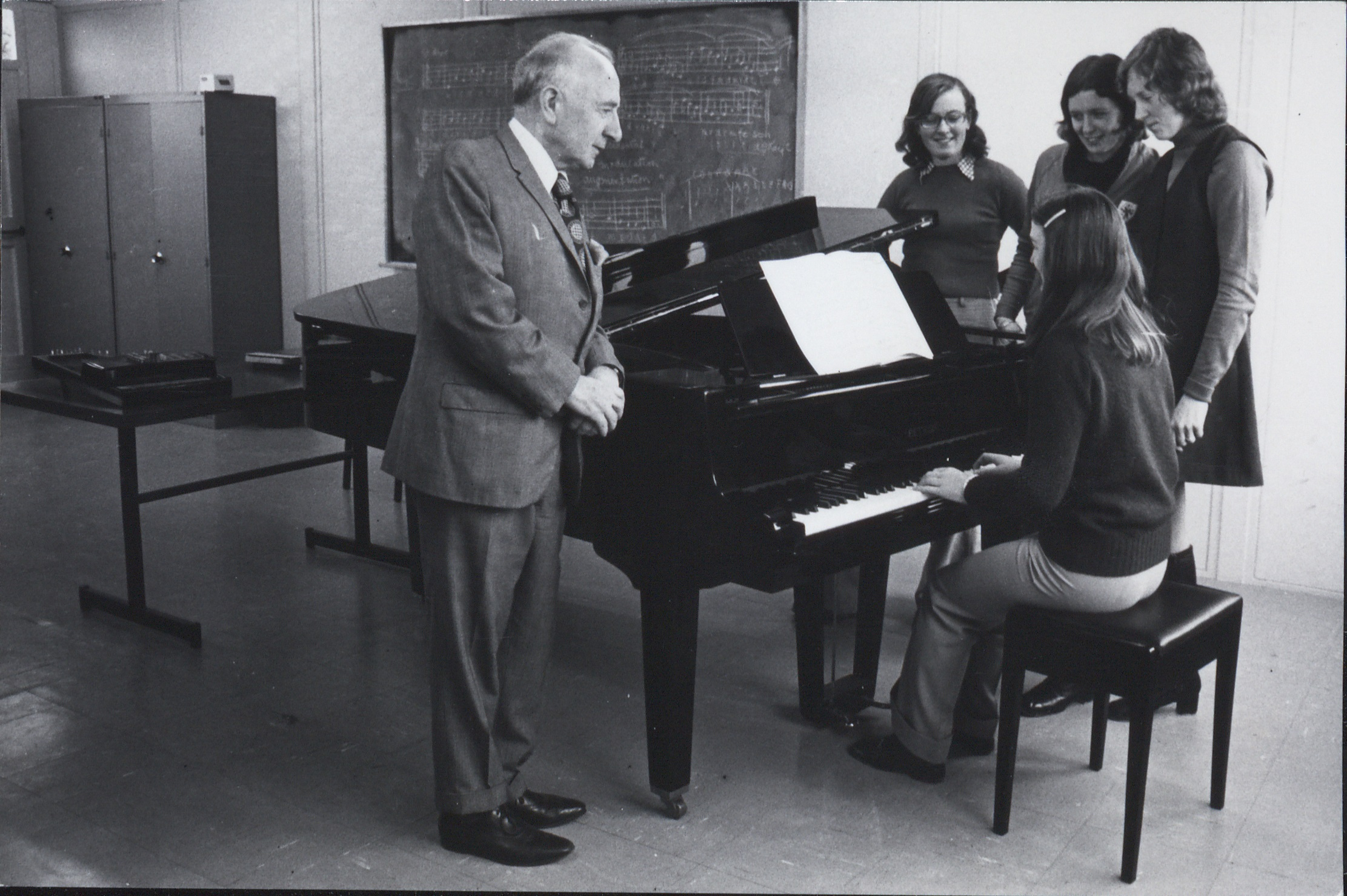 Ref C1/748